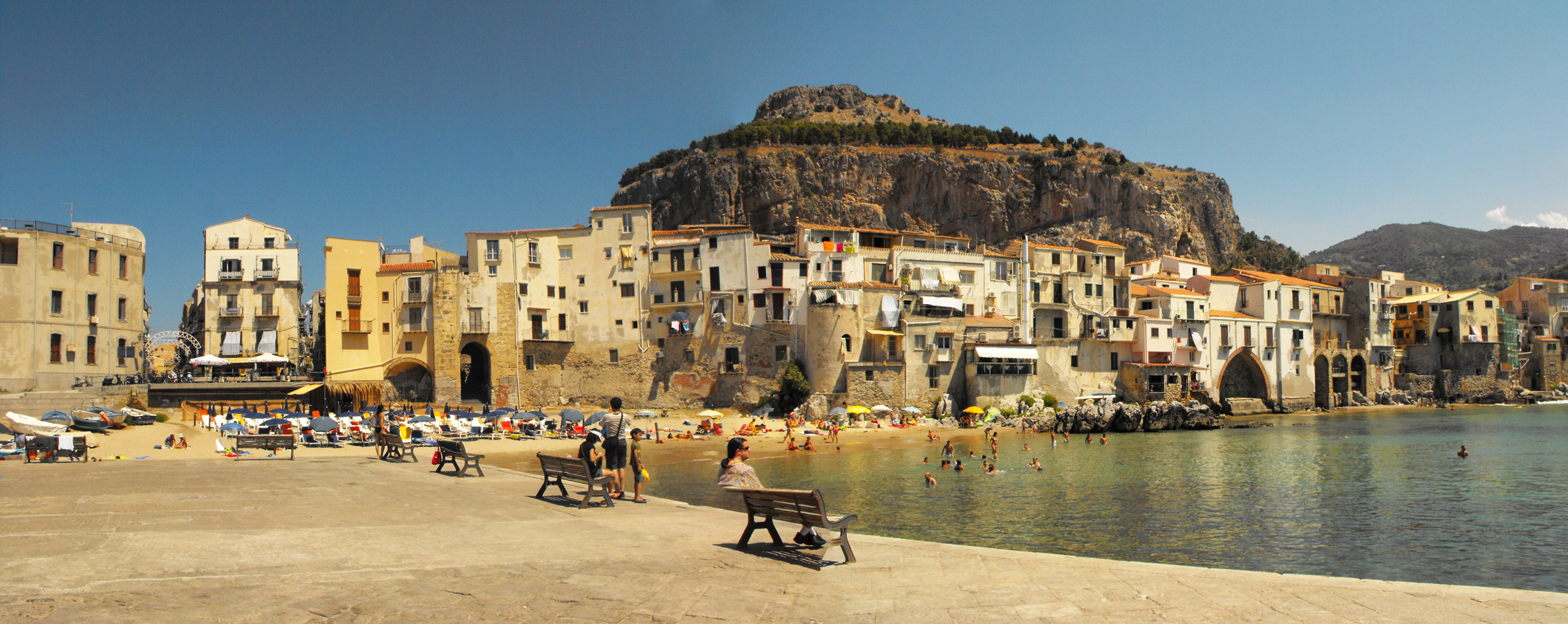 Panoramic view of some of the seaside old buildings in Cefalù. Sicily, Italy. Jul 2010